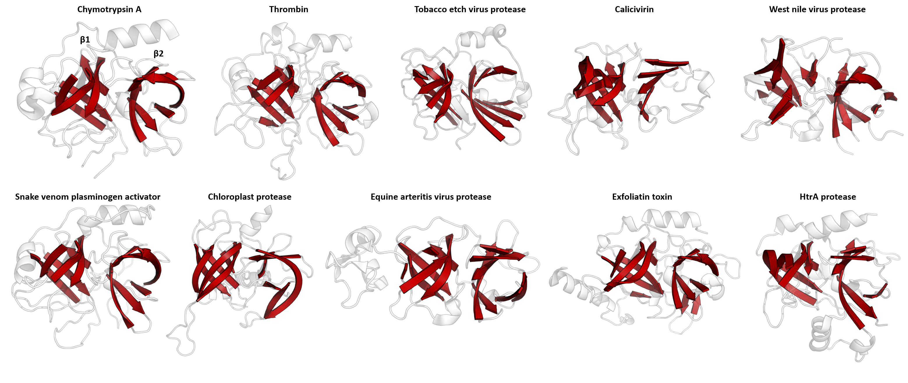 Structural homology in the PA superfamily (PA clan). The double beta-barrel that characterises the superfamily is highlighted in red. Shown are representative structures from several families within the PA superfamily. Note that some proteins show partially modified structural. Chymotrypsin (1gg6), thrombin (1mkx), tobacco etch virus protease (1lvm), calicivirin (1wqs), west nile virus protease (1fp7), exfoliatin toxin (1exf), HtrA protease (1l1j), snake venom plasminogen activator (1bqy), chloroplast protease (4fln) and equine arteritis virus protease (1mbm).